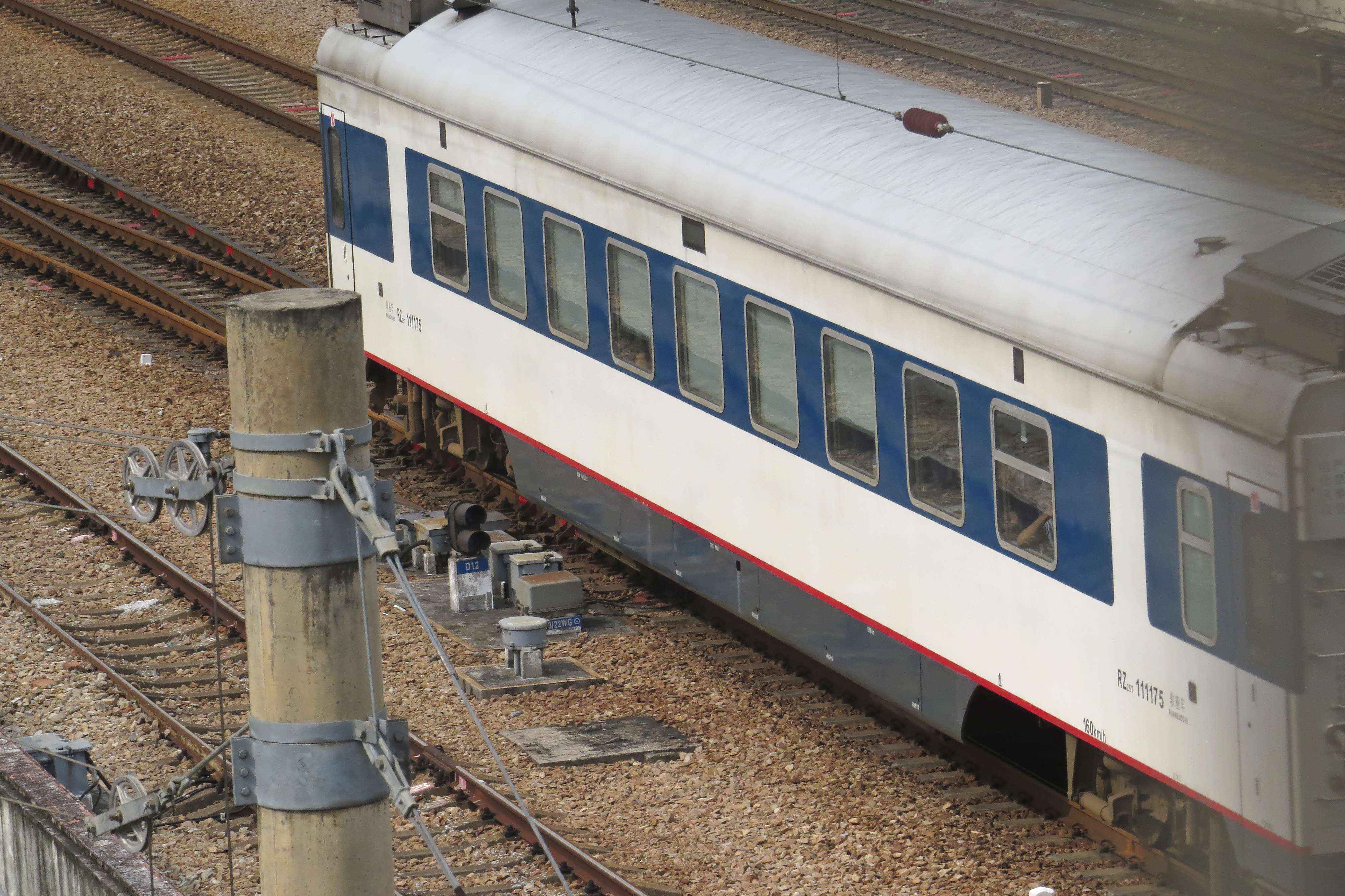 Z809 to Hung Hom, mostly Gaozugreen, leaving this carriage the only white one.